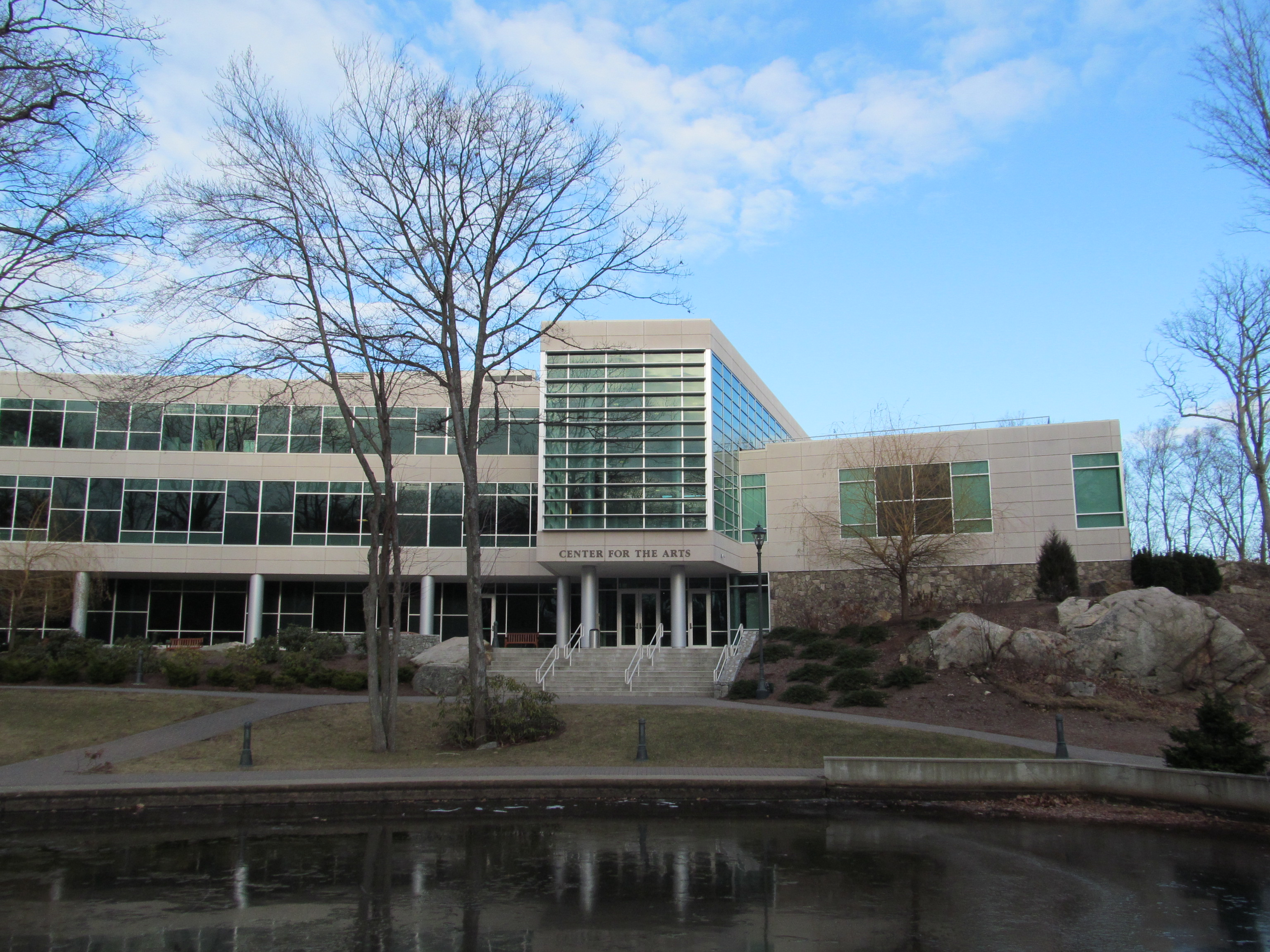 Center for the Arts, Endicott College, Beverly Massachusetts